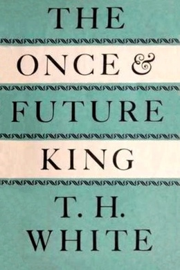 Front cover of the first edition of The Once and Future King by T. H. White